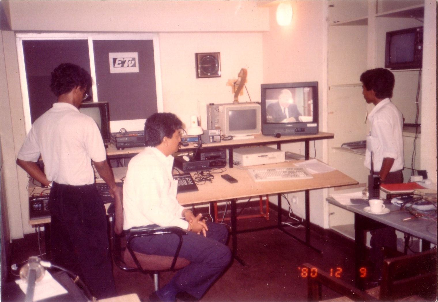 The original digital ETV control room & studio with (L to R) Arlaka J. (Admin Mgr MCS/ETV), Sanjay B. (Entrepreneur from India), Priyanke de Silva (CEO/MD MCS, Tech. Consultant ETV). On the TV monitor is Russian President Mikhail Gorbachev which caught the attention of Sanjay B. on the 17th floor of the SET building in Colombo 4, Sri Lanka